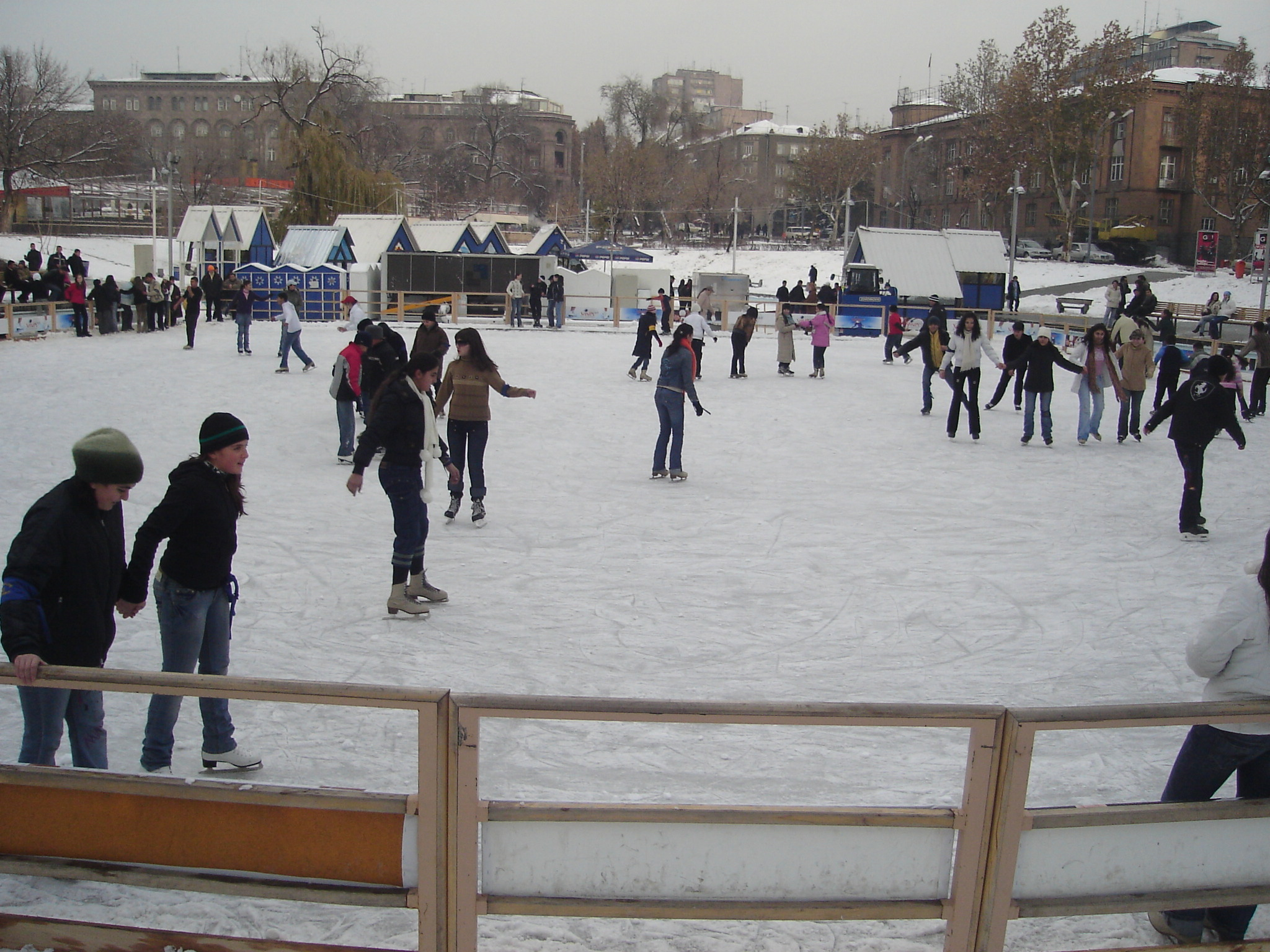 Swan lake, Yerevan